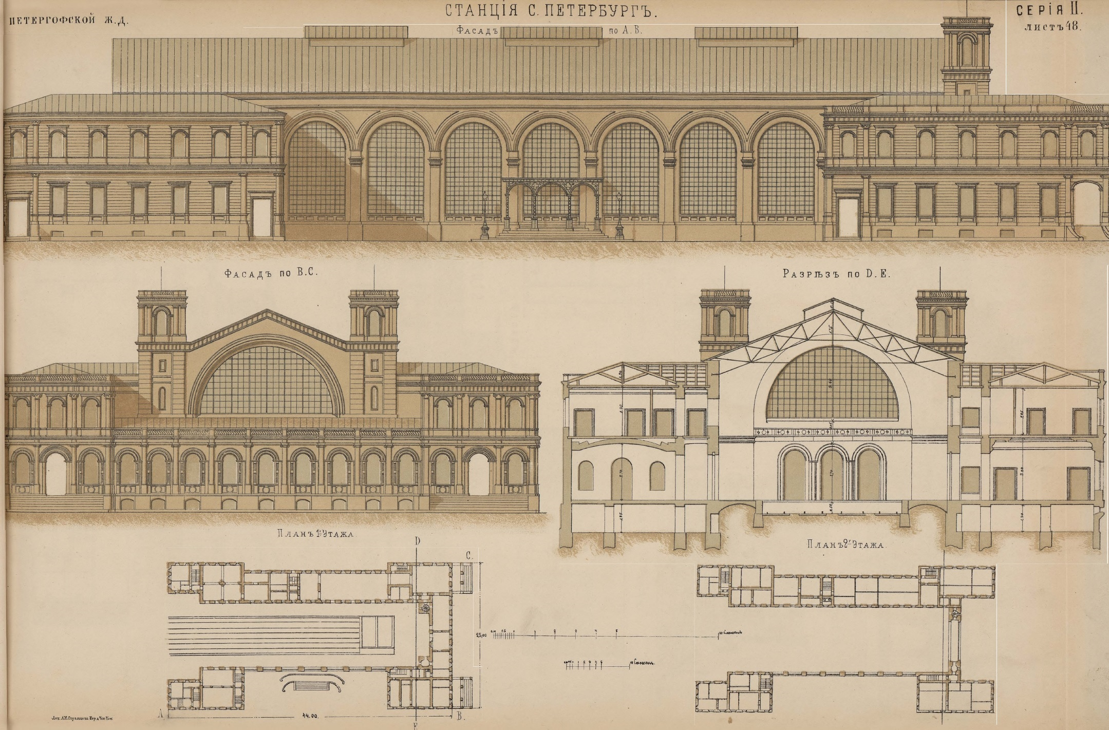 Peterhof station. Peterhof railway. Russian Empire